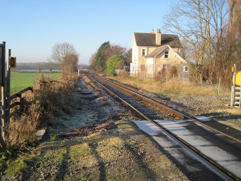 Hopperton railway station (site), YorkshireOpened in 1848 (as Allerton) by the East & West Yorkshire Junction Railway, soon to be part of the North Eastern Railway empire, on the line from Knaresborough to York. This station closed to passengers in 1958. View west towards Goldsborough and Knaresborough. The 1909 OS map shows the Knaresborough-bound platform to be opposite the station building whilst the York-bound-platform was behind the camera position, now largely underneath the A1(M) flyover. The crossing in the foreground was for the original A1 Great North Road. The name changed from Allerton to Hopperton in 1925. (All dates subject to confirmation).